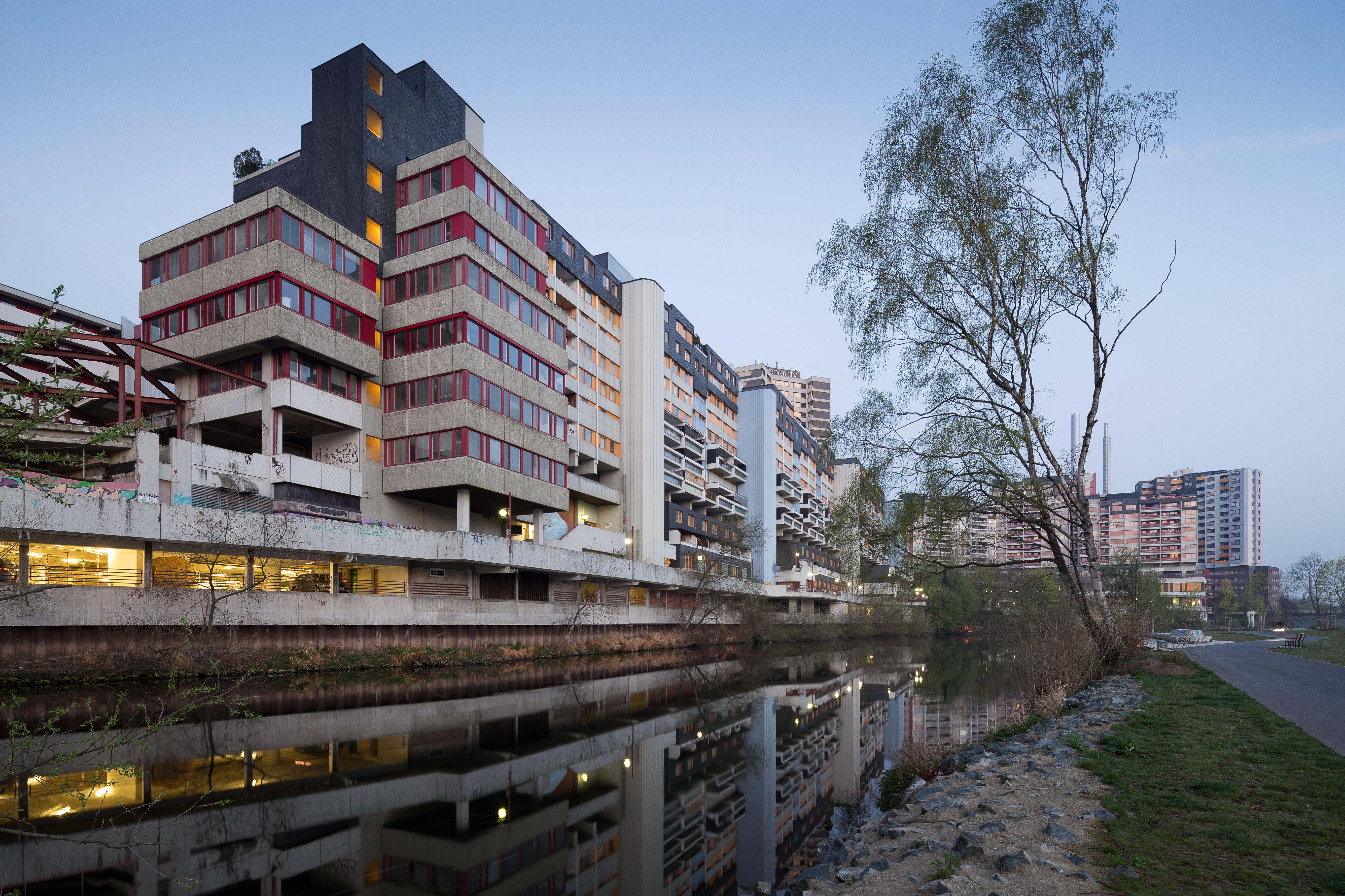 "Ihme-Zentrum" housing area located at Linden district in Hanover, Germany. View from Ihme river.